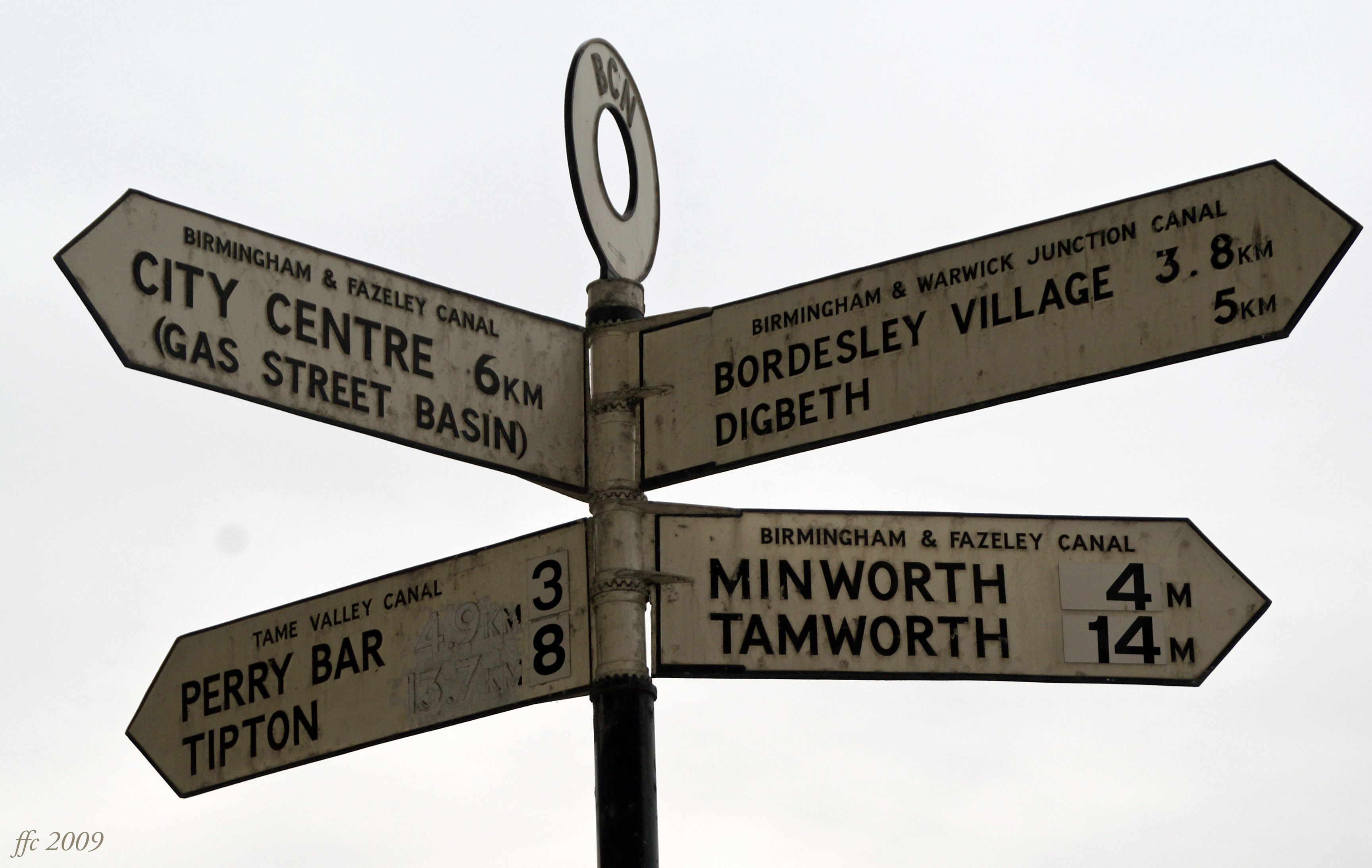 Birmingham (United Kingdom): Three canals: Birmingham & Fazeley, Tame Valley Canal i Birmingham & Warwick Junction Canal